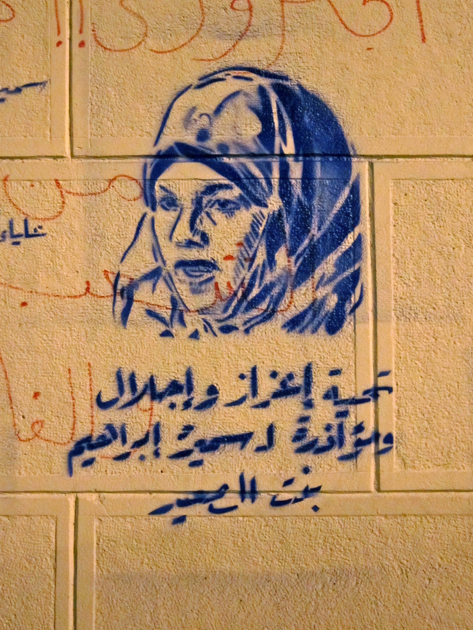 Samira Ibrahim, who is fighting SCAF in a law suit against Army conducting virginty checks on female protesters in the Egyptian musem in March. The graffiti reads "Salute, solidarity & support for Samira Ibrahim, The girl from Upper Egypt." This Graffiti is comparing the media attention Alyia Elmahdy has received for her nude picture and the message she is trying to get out with Samira Ibrahim's lawsuit case against SCAF for the virginity checks conducted on female protesters in the Egyptian Museum by the army last March. It is obvious that the public is in much support of Samira, but the media is frenzy with the controversial nude picture as "freedom of expression."